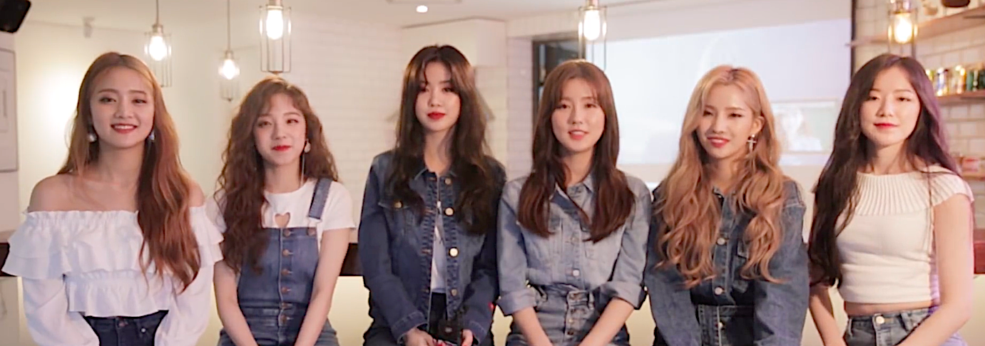 (G)I-dle 10+Star July issue summer magazine photoshoot.